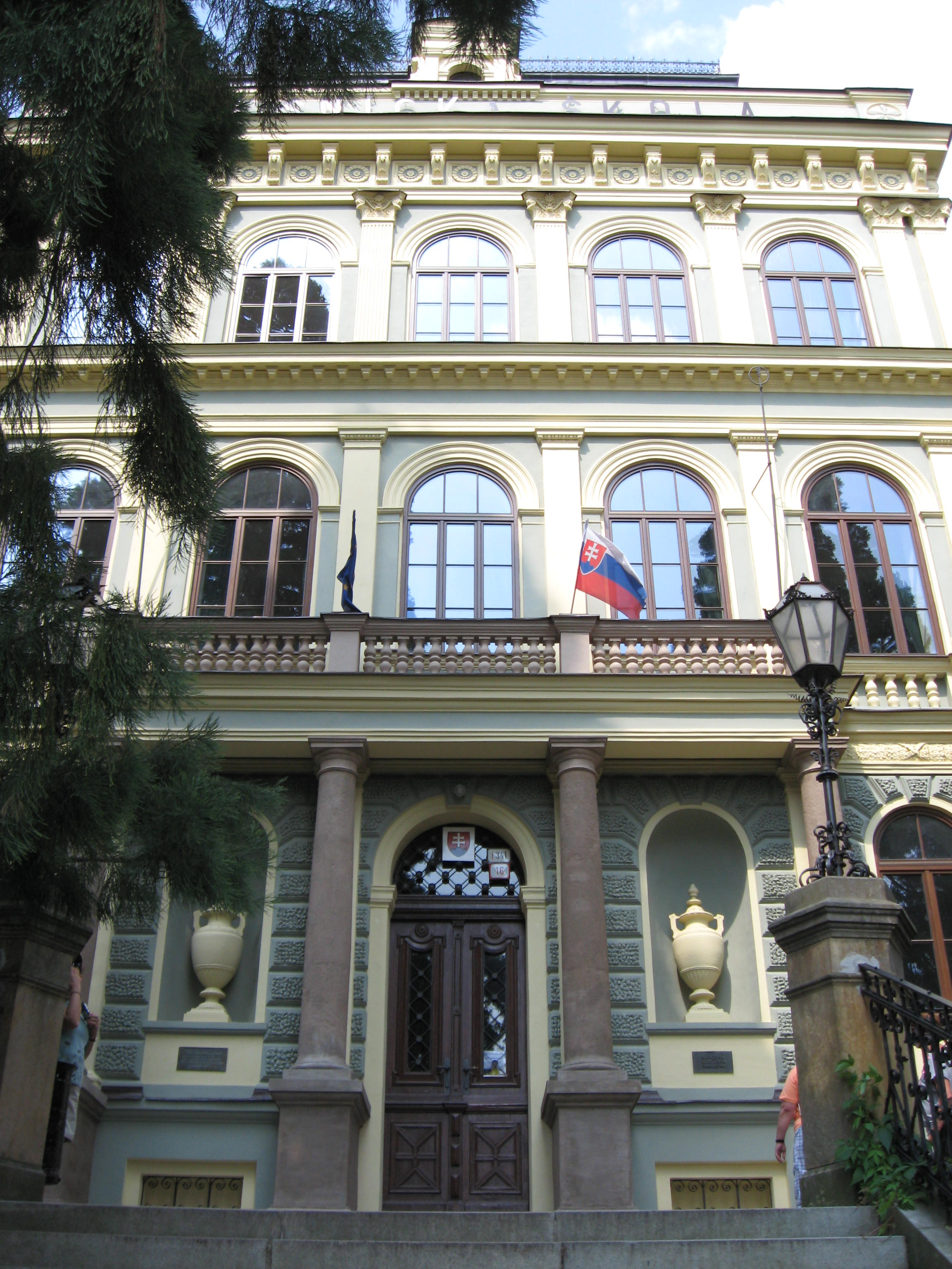 Front entrance to the former School of Forestry, Academy of Mining and Forestry, Banksa Stiavnica, Slovakia. Building completed June 26, 1892.